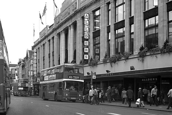 North End, Croydon Before it was fully pedestrianised, Croydon's North end went through an intermediate period in which it was closed to private motor traffic, but still open to buses, taxis and cycles. Here we see a London Country double decker on Route 409 passing Allders on its way to Godstone.